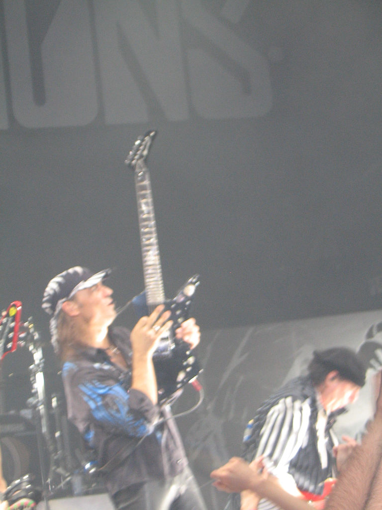 Matthias Jabs live with the scorpions